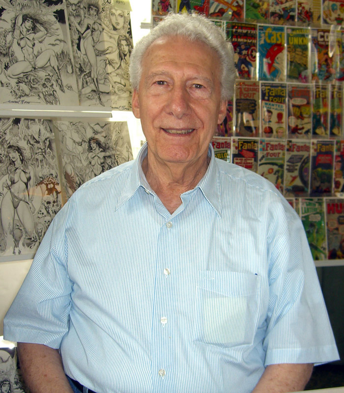 Comic book creator Joe Giella at the Big Apple Summer Sizzler in Manhattan, June 13, 2009.